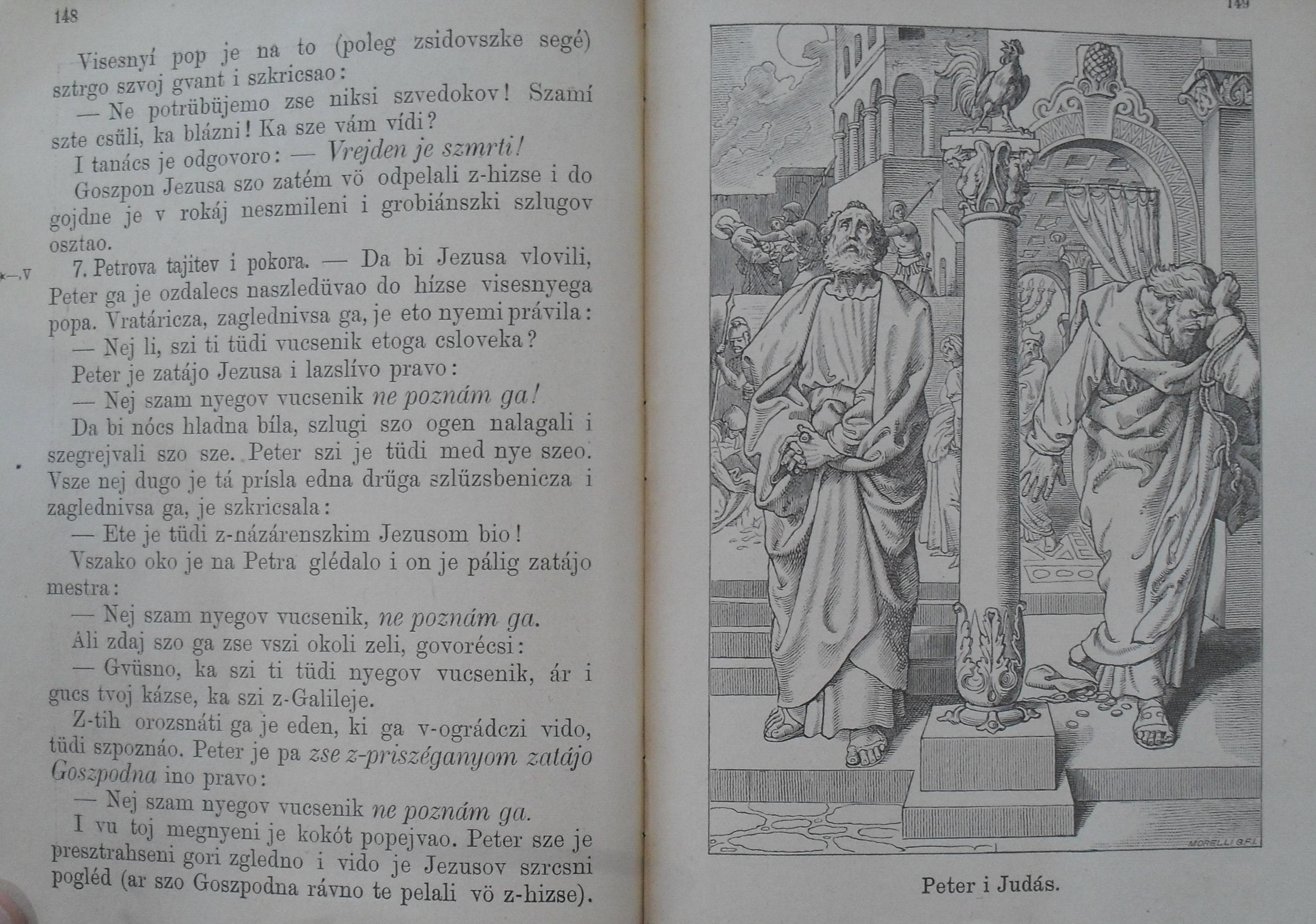 Peter, Judas and the chock (Mála biblia z-kejpami, 1898)